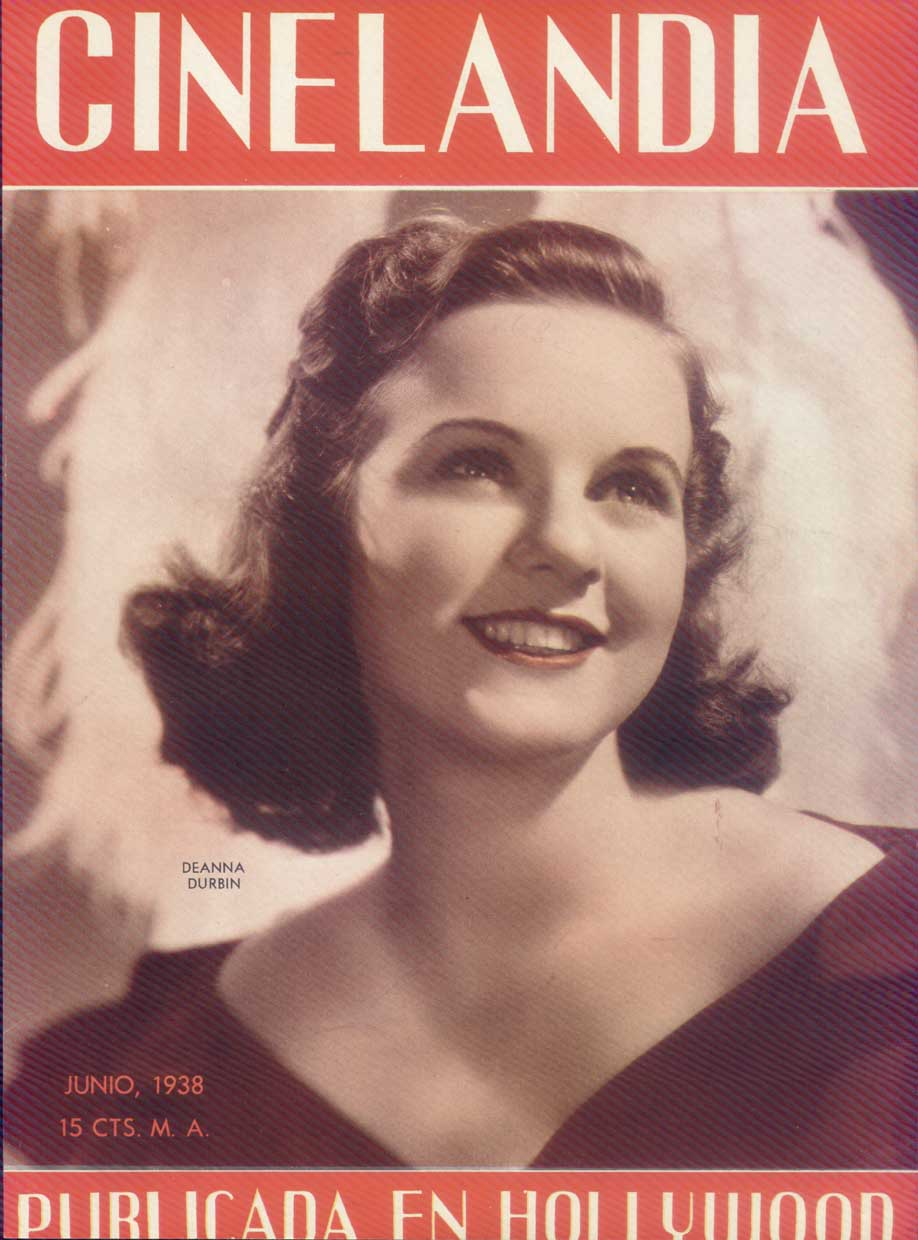 Deanna Durbin on the Argentinean Magazine cover.